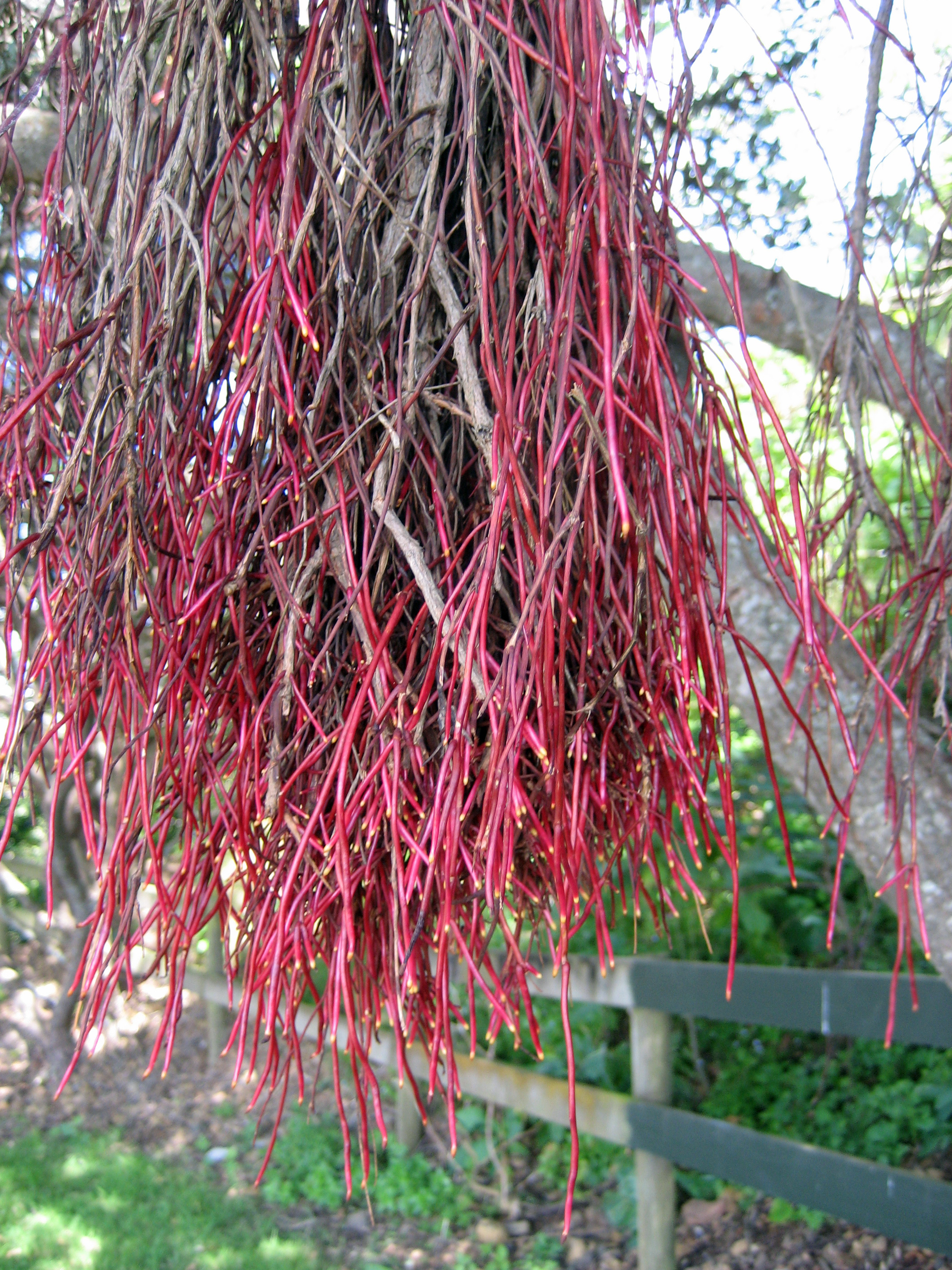 Detail of the aerial root of a young Pōhutukawa tree (Metrosideros excelsa), Mount Wellington, Auckland, New Zealand.